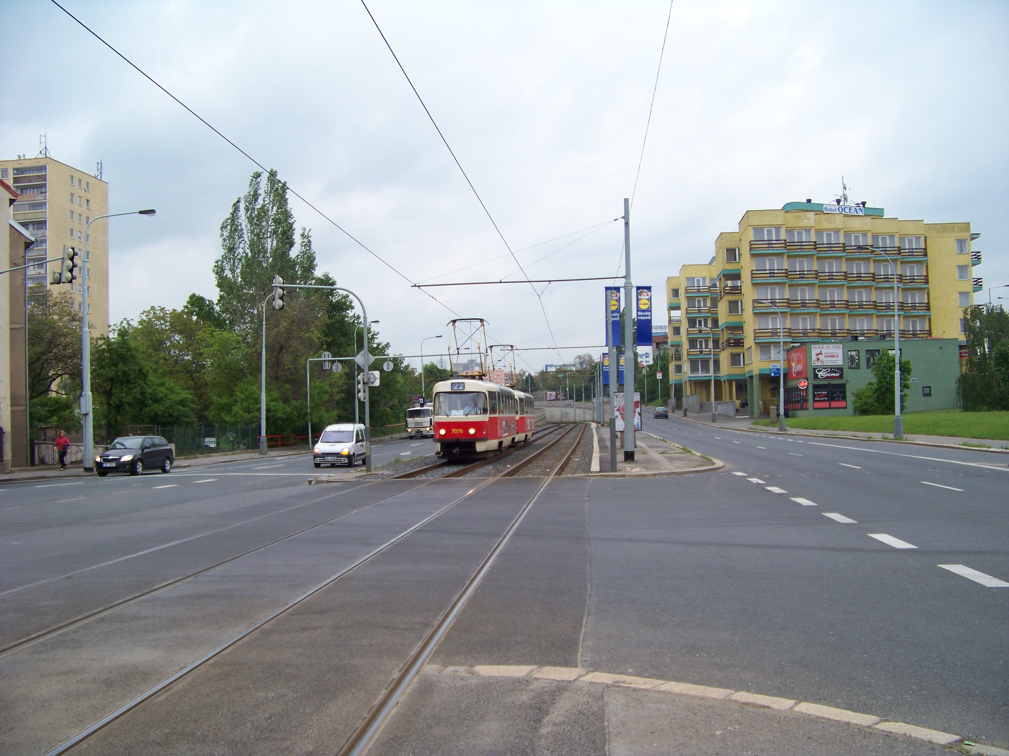 Hostivař, Prague, the Czech Republic. Průmyslová street.